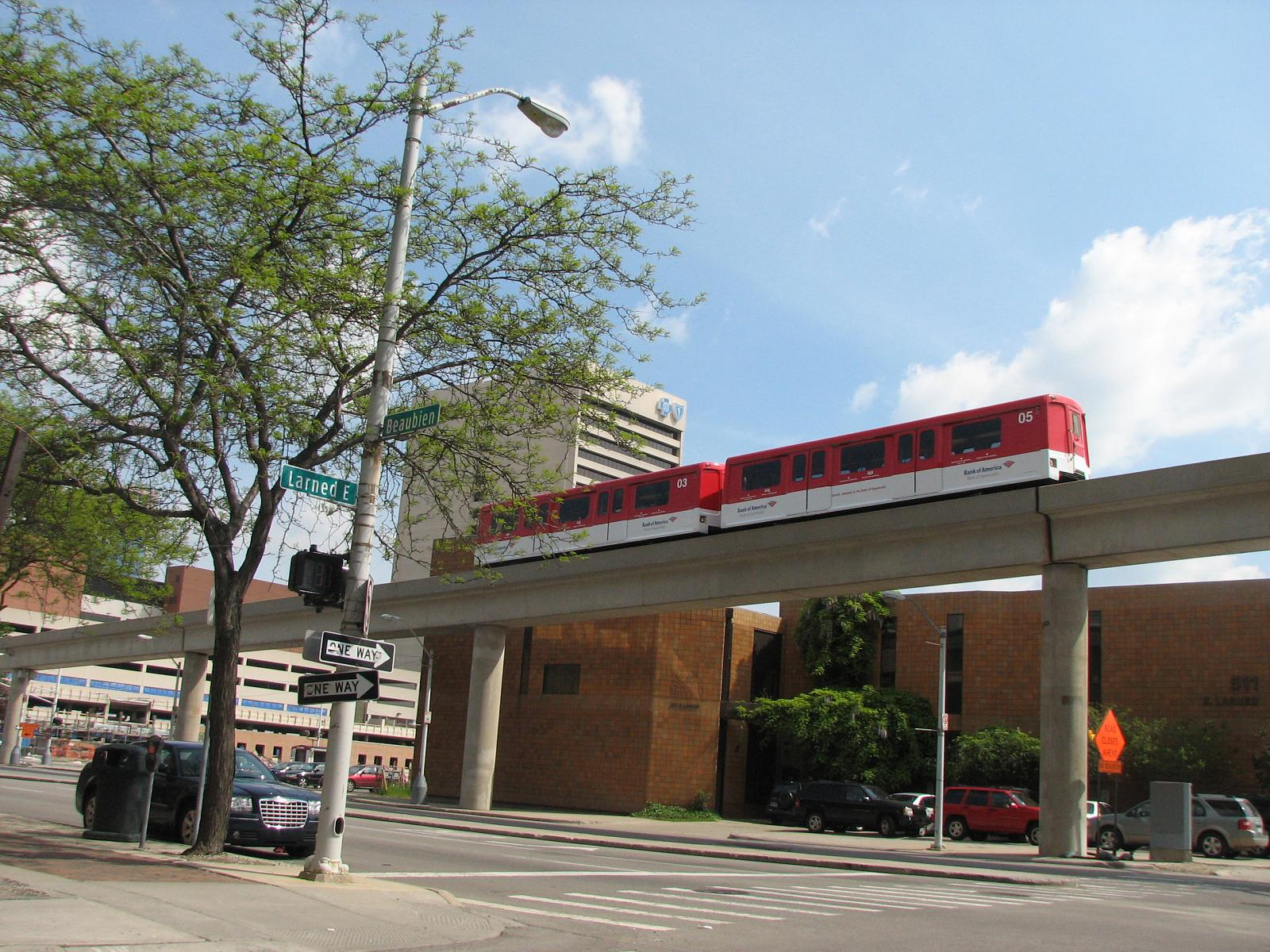 The People Mover passing Beaubien and East Larned Streets in Detroit, Michigan.